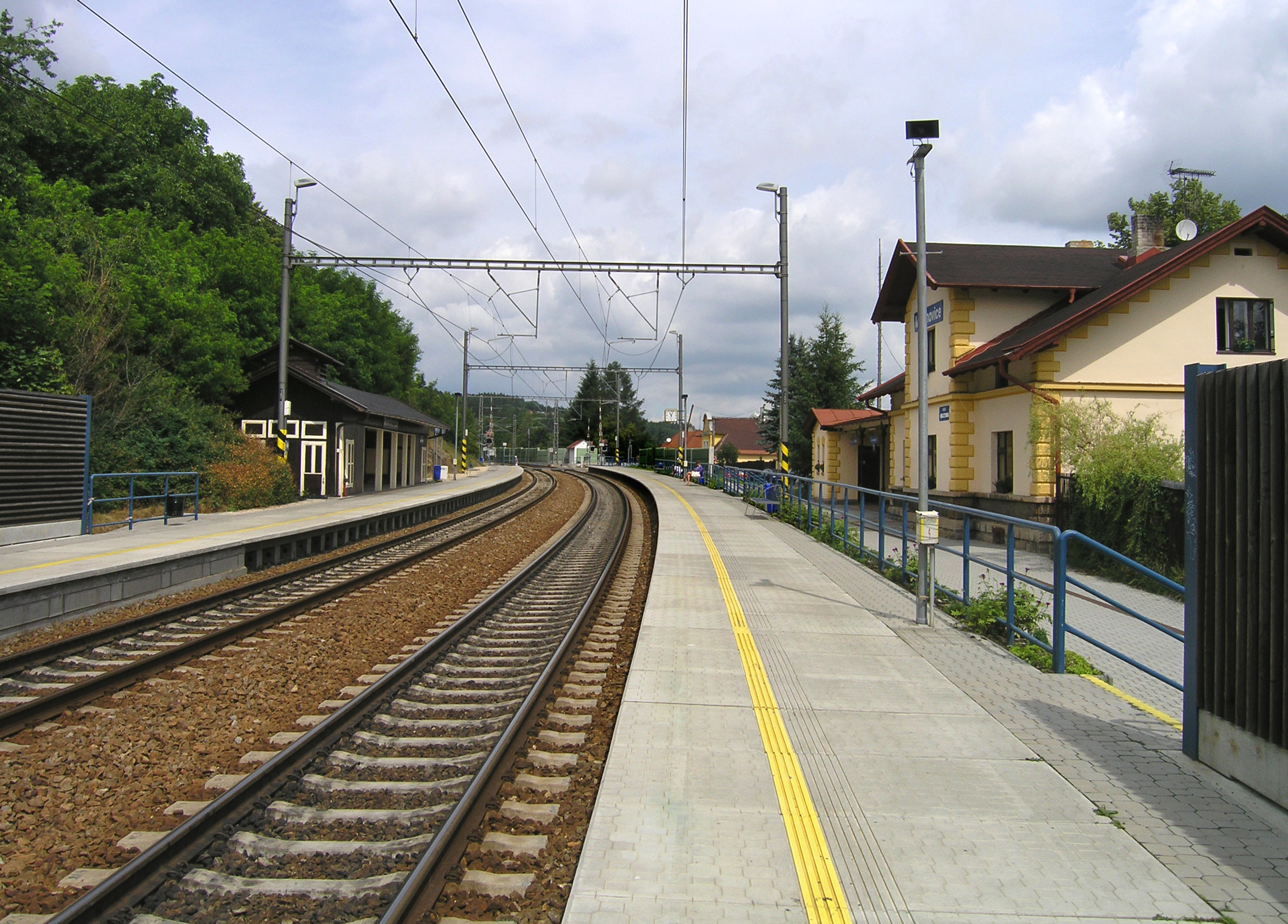 Train station in Mnichovice, Czech Republic